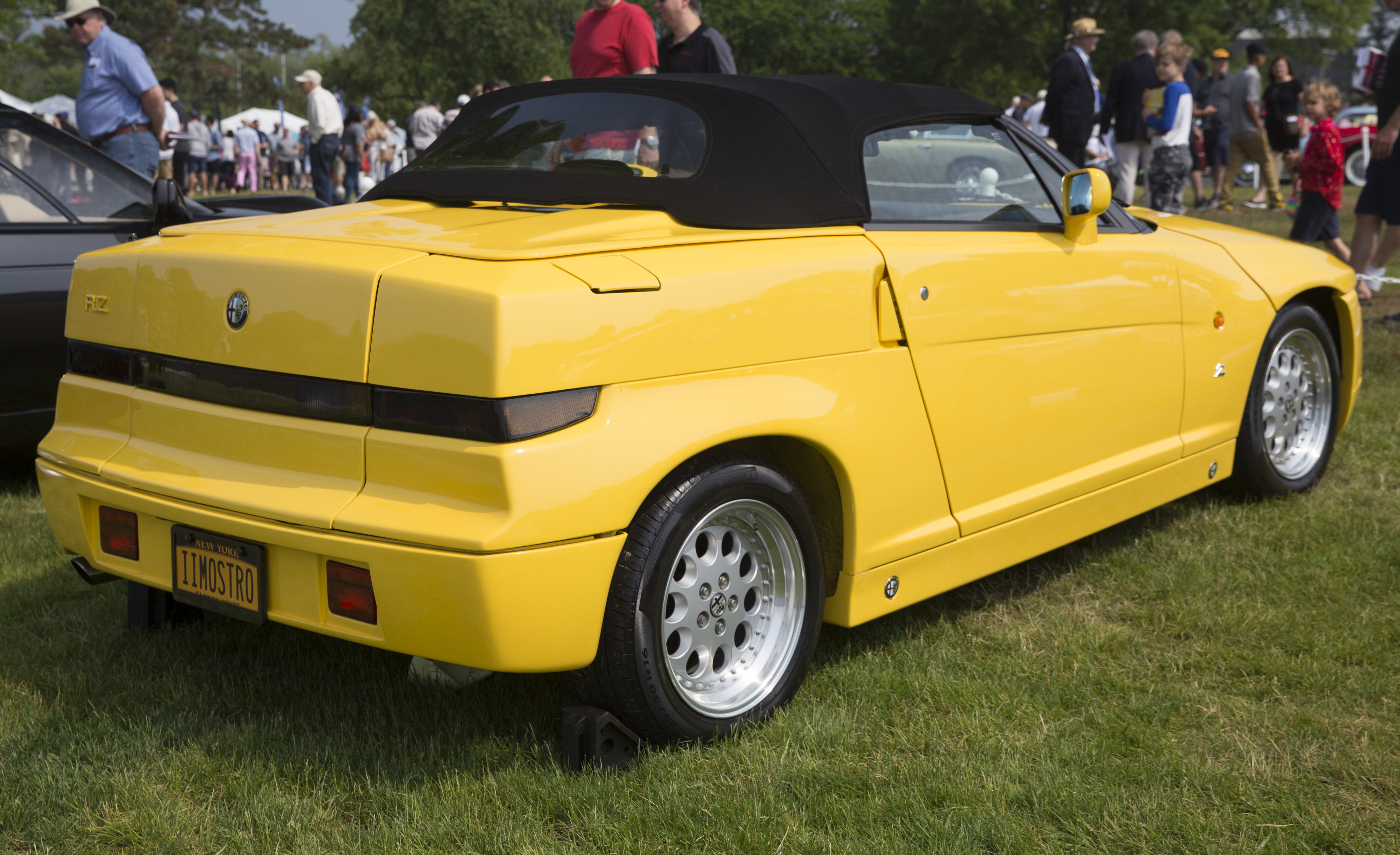 1993 Alfa Romeo R.Z. (#145) at the 2019 Greenwich Concours d'Elegance. Yet another one of my holy grails shown this year!